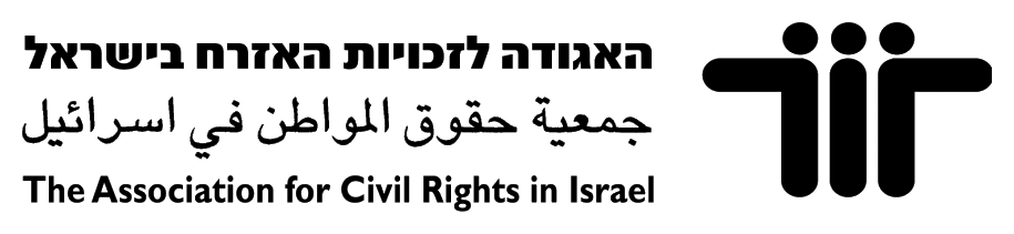 The Association for Civil Rights in Israel